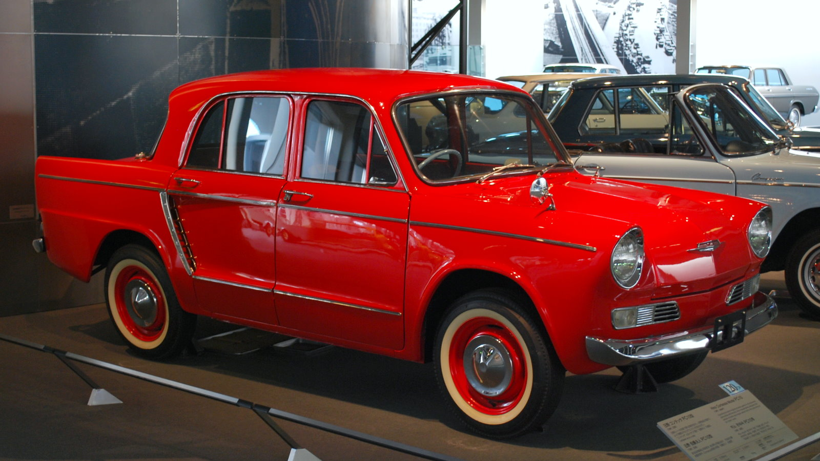 1st generation Hino_Contessa Model PC10 (1961 - 1965)